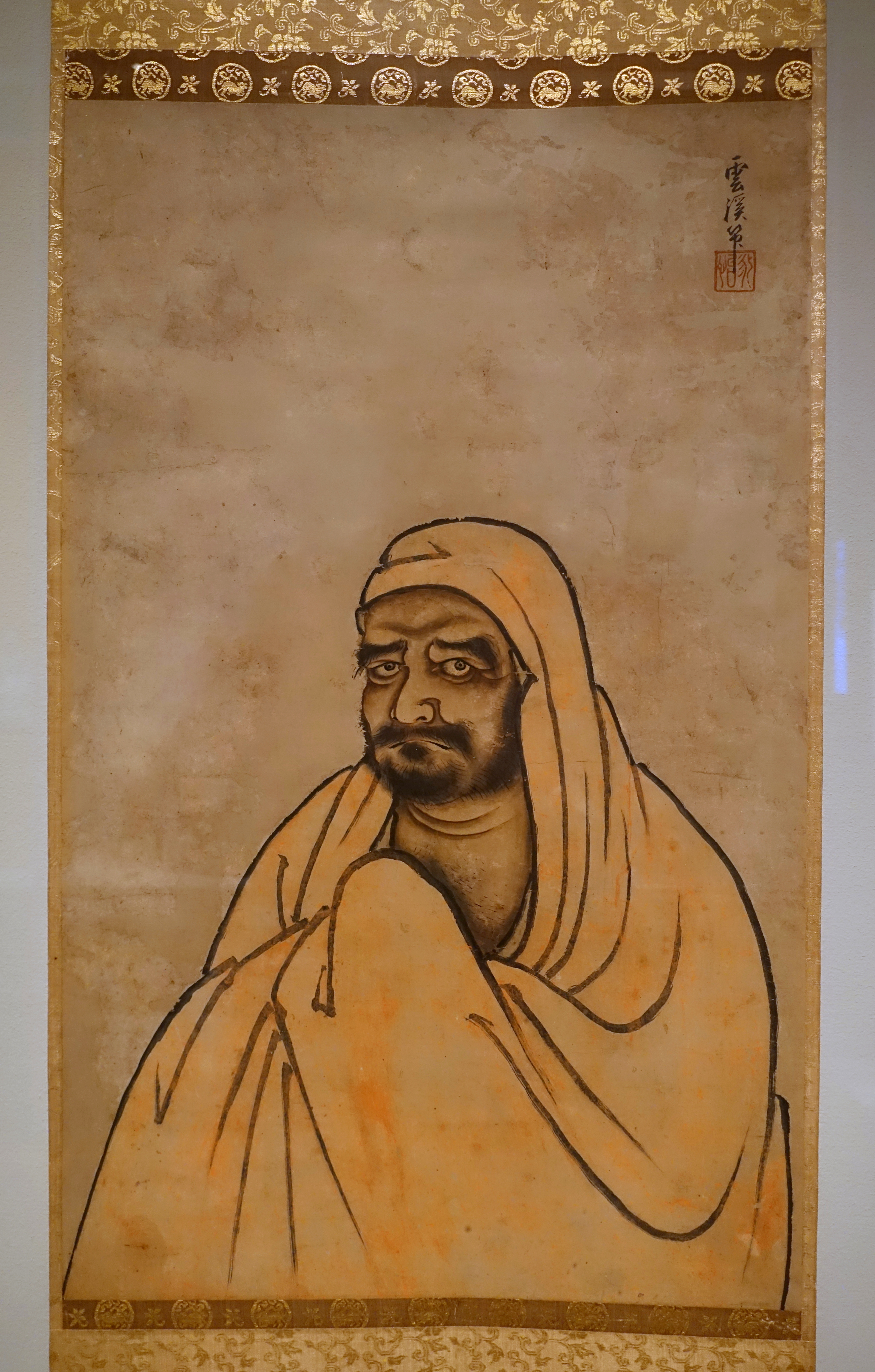 Exhibit in the Linden-Museum - Stuttgart, Germany.